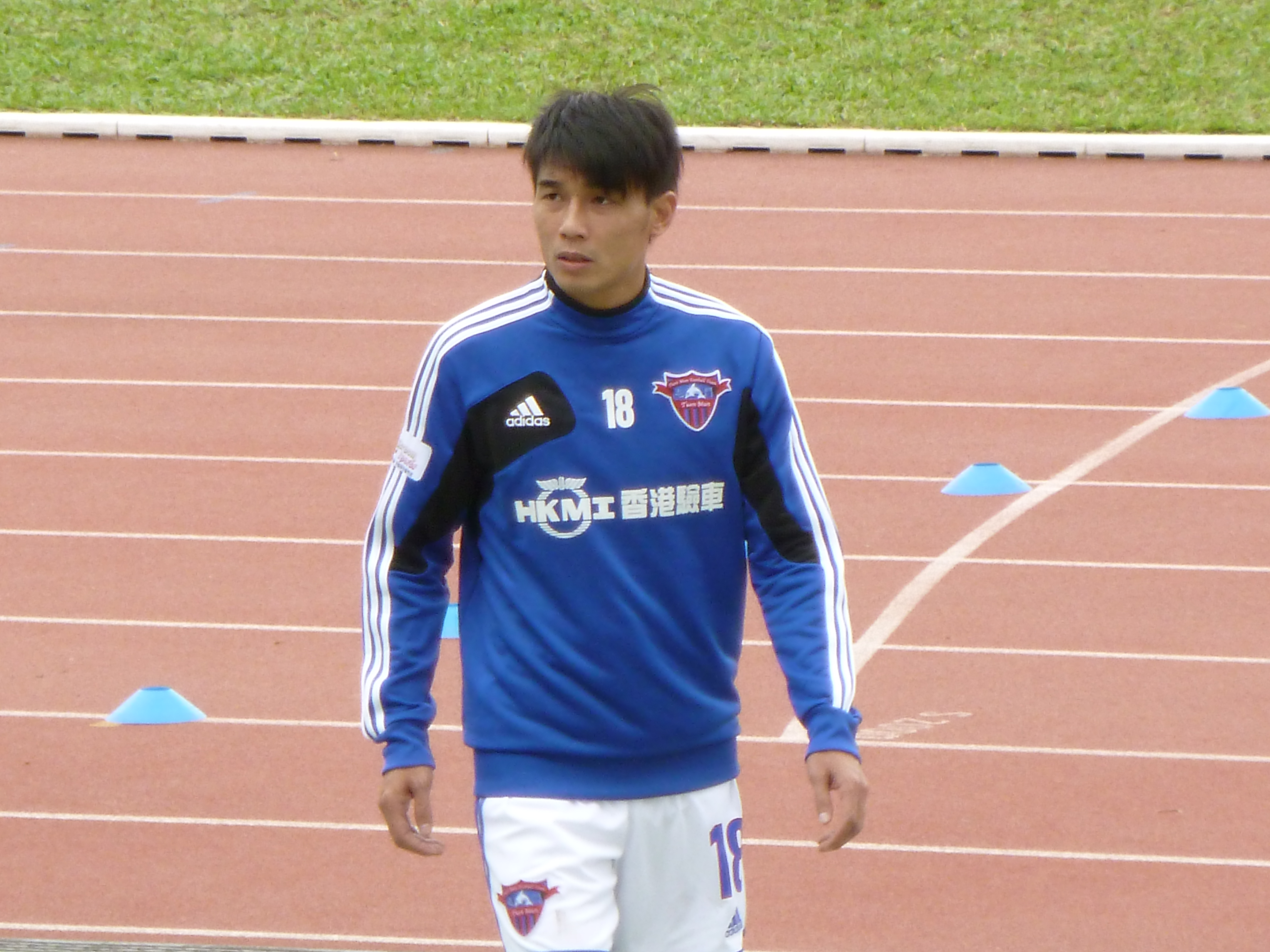 Cheung Yiu Ting (24 Nov 2012 Hong Kong Senior Shield, Tai Po vs Tuen Mun, Tsing Yi Sports Ground) 中文（香港）: 張耀庭 (24 Nov 2012 香港高級組銀牌賽, 大埔 vs 屯門, 青衣運動場)